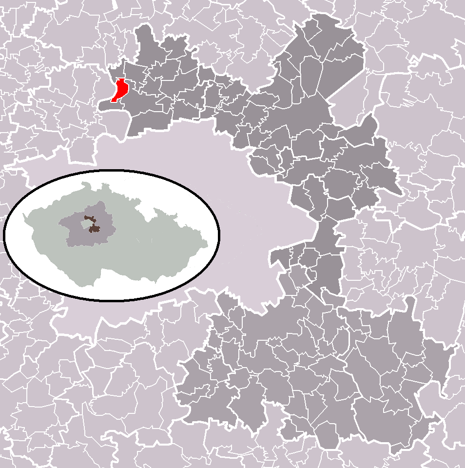 Location of Větrušice municipality within Prague-East District and administrative area of Brandýs nad Labem-Stará Boleslav as a Municipality with Extended Competence.